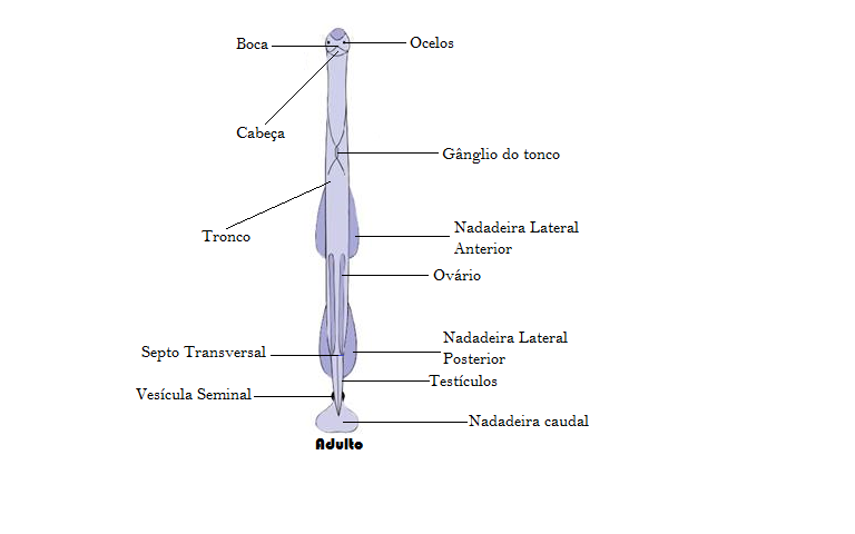 An adult of Chaetognath, showing it's main anatomical structures